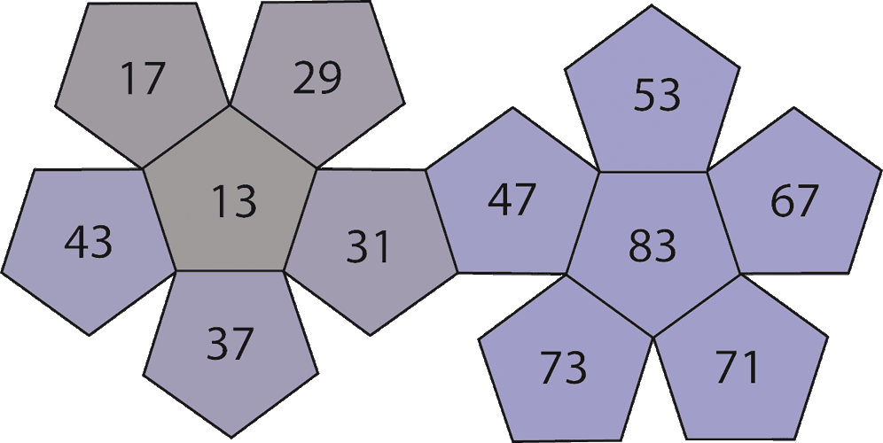 nontransitive prime-numbers-dodecahedron PD 11